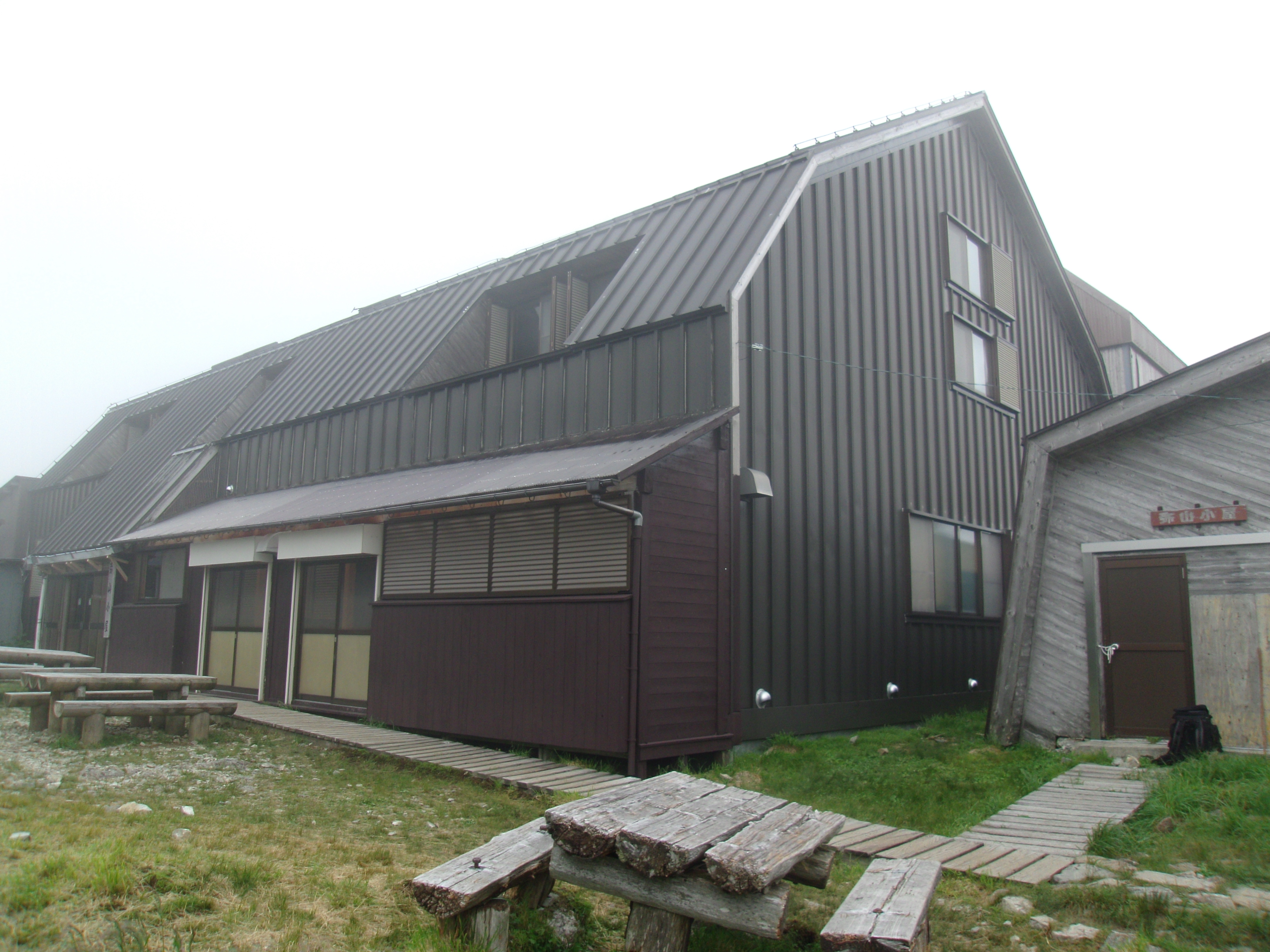 Mountain hut Misen-goya in the Omine Mountains, Nara Prefecture, Japan